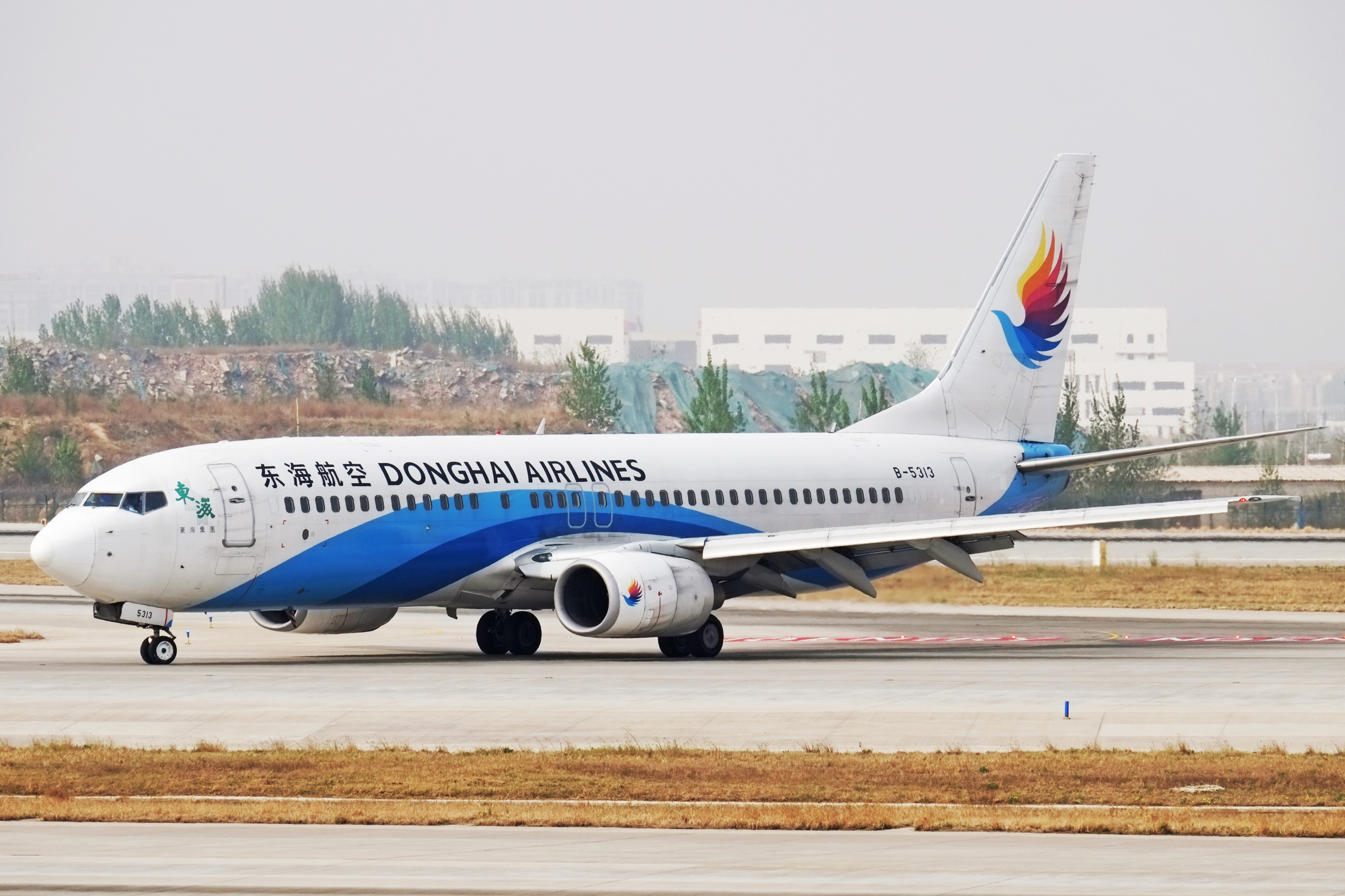 B-5313 on flight DZ6286 from Lanzhou at CGO